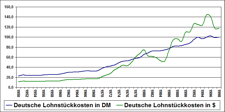 German unit labor costs in national currency and $. 1950-1998. Data from Bureau of Labor Statistics